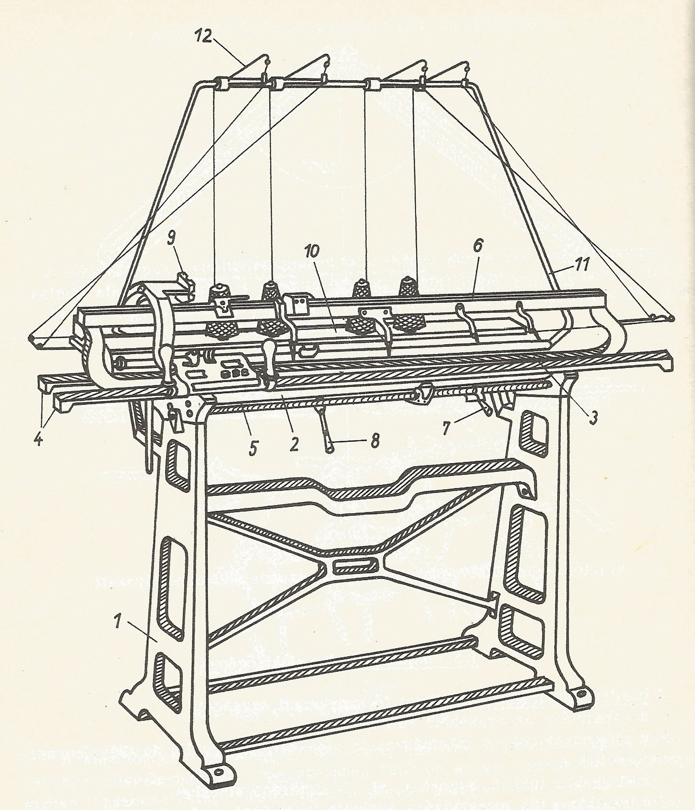 Hand-driven V-bed flat knitting machine. 1 Machine frame, 2 needle bed holding buck, 3 needle bed, 4 cam-carriage rails, 5 cam-carriage, 6 yarn guide rails, 7 needle bed descending level, 8 needle bed shifting level, 9 yarn guide changeing switches, 10 spool table, 11 yarn guiding frame, 12 yarn drawing-back spring